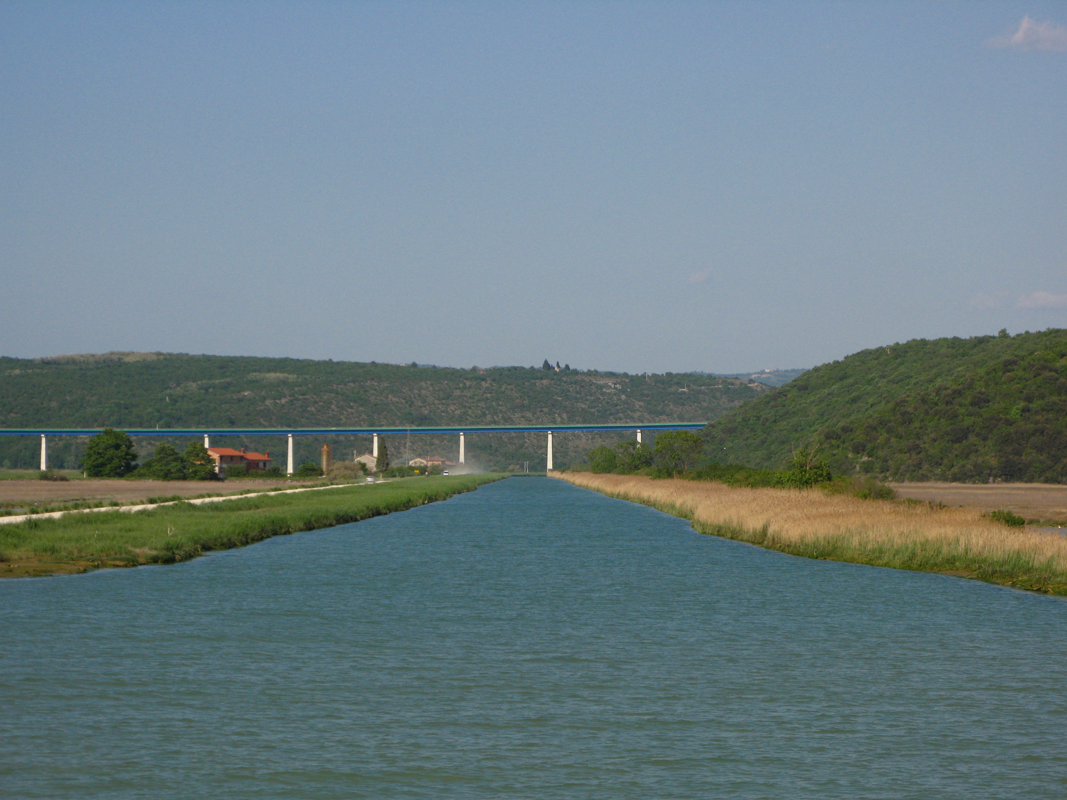 Mirna river at Antenal, Istra, Croatia.